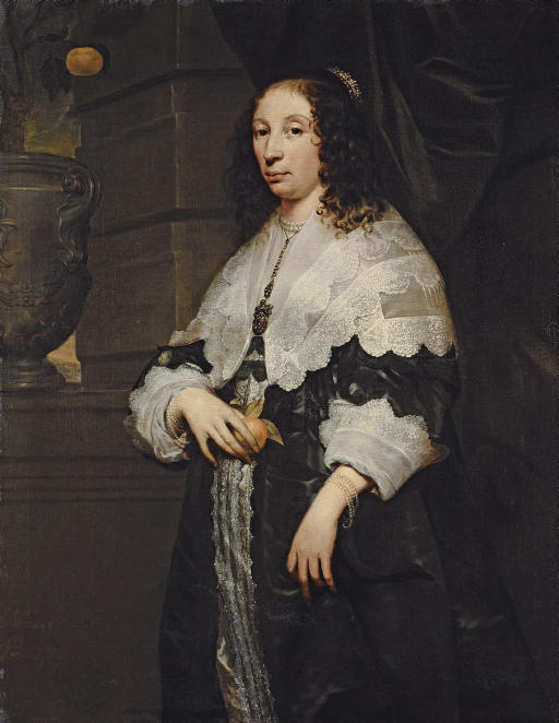 Portrait of a Lady in a black dress and a lace collar holding an orange